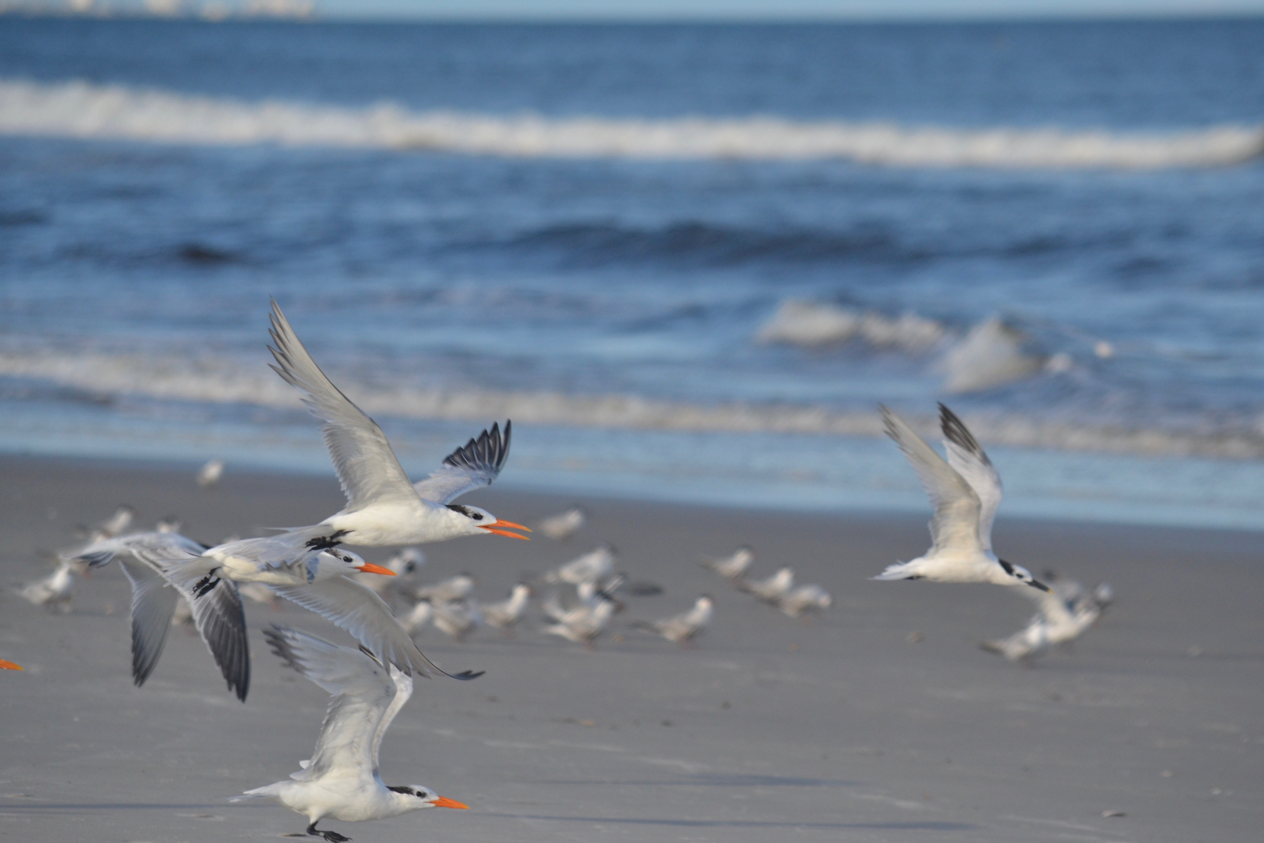 Royal and Cabot's Terns take flight at Pleasure Island, North Carolina